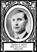 Image of Albert E. Mead, governor of Washington from 1905–1909.